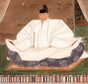 Toyotomi Hideyoshi (1536-1598).